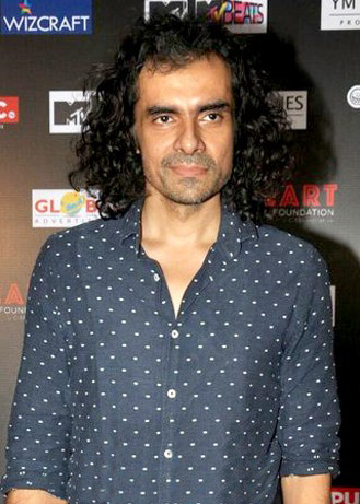 Imtiaz Ali at the screening of the A. R. Rahman's documentary.